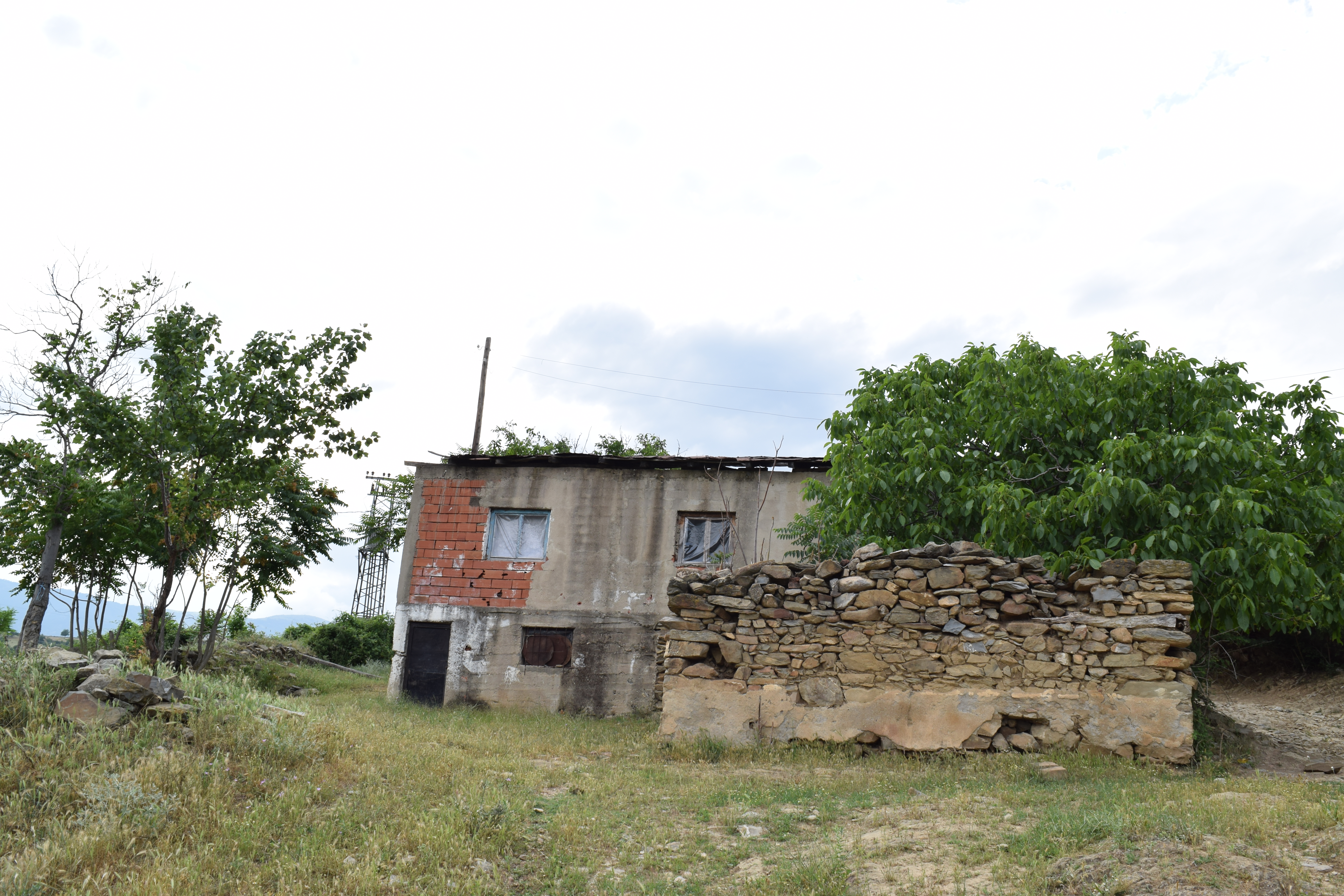 Houses in the village Busilci